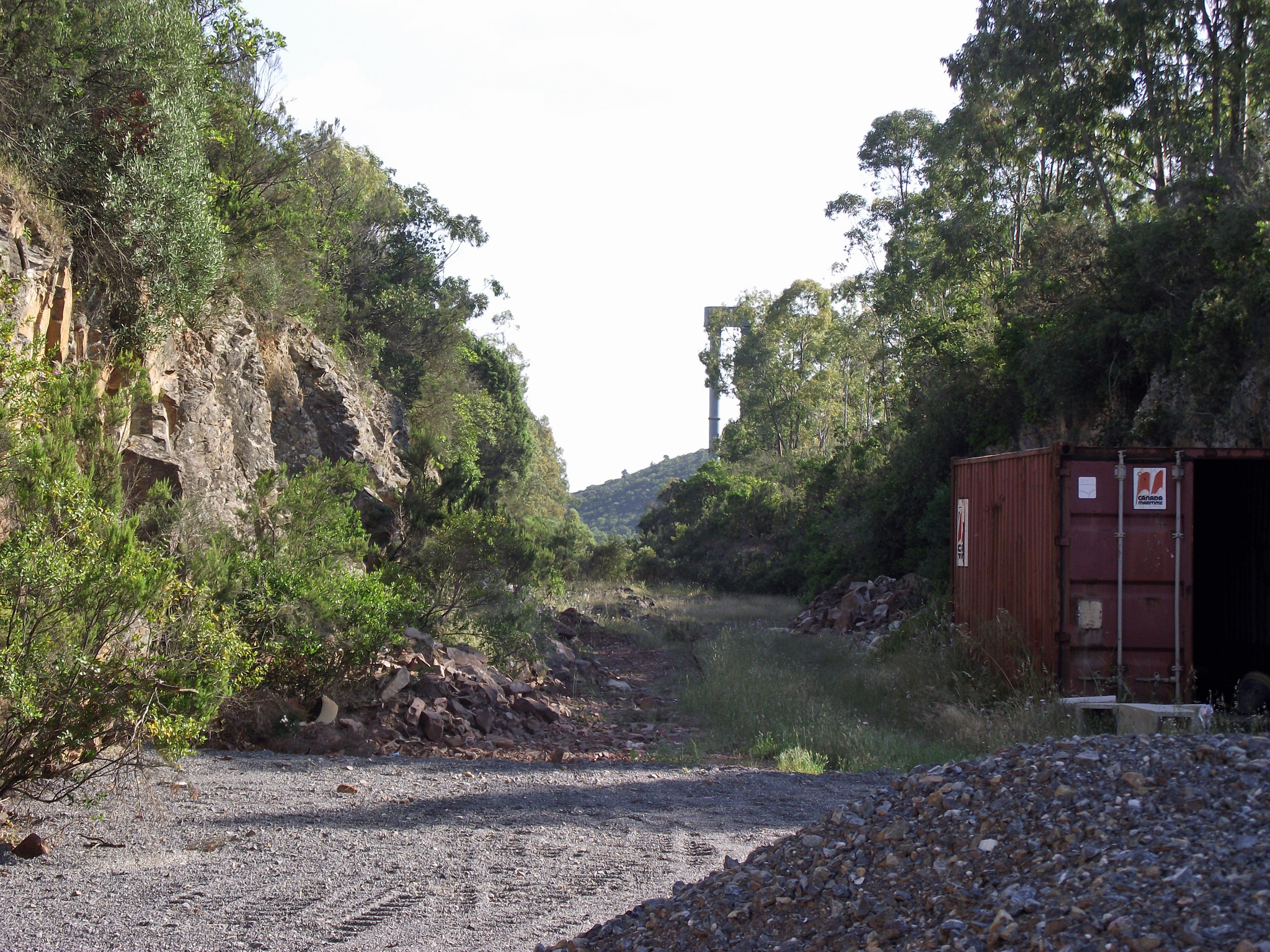 The area occupied in the past by the tracks of the former train station of Campanasissa, along the former railway Siliqua-San Giovanni Suergiu-Calasetta in Sardinia, Italy, closed in 1968.